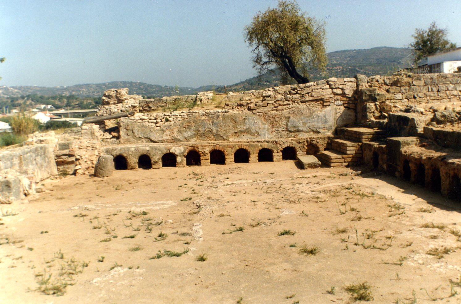 Room of the apodyterium, in the Milreu roman ruins, in Algarve, Portugal This file was uploaded for Wiki Loves Monuments in Portugal with the unique identifier 70255.